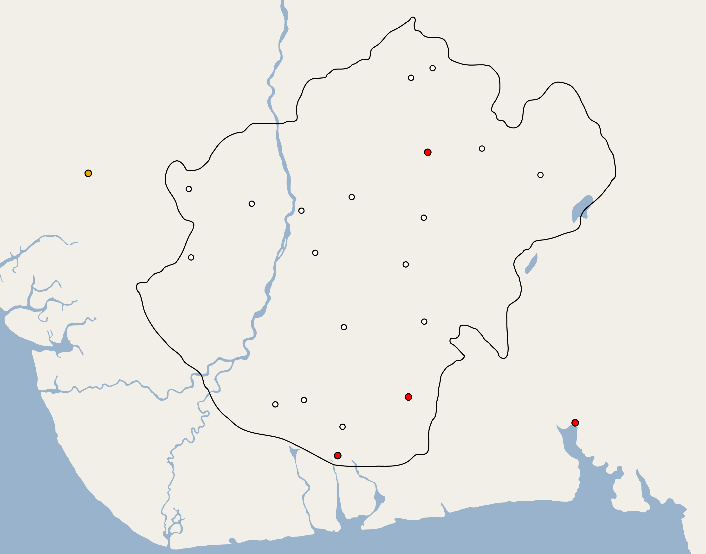 The map of the indigenous territory of the Igbo people of southeastern Nigeria.